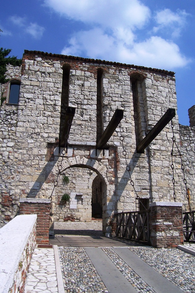 Castle of Brescia